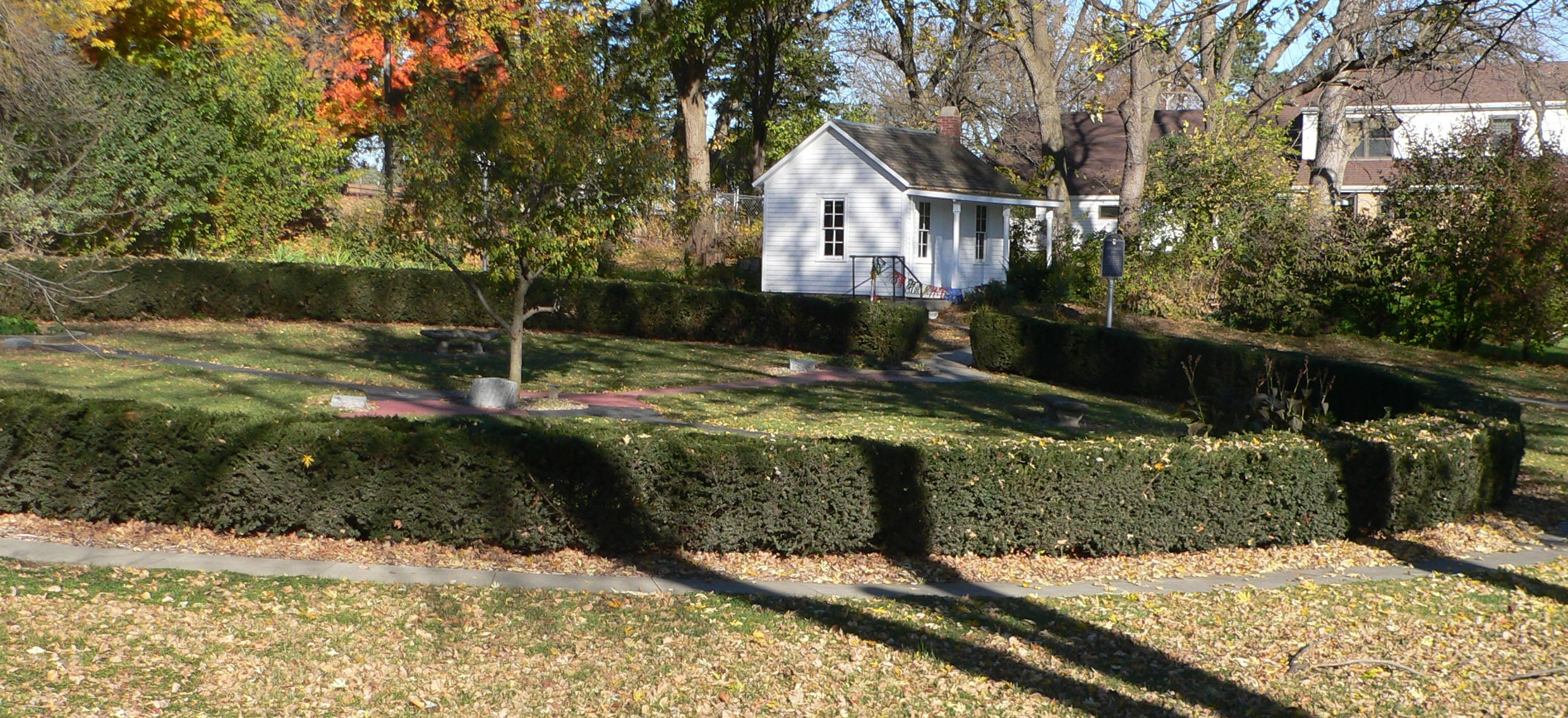 John G. Neihardt study at John G. Neihardt State Historic Site in Bancroft, Nebraska; seen from the southeast. In the foreground, surrounded by the circular hedge, is the Sioux Prayer Garden. The Neihardt studio is the small building immediately behind the hedge. The house further in the background at right is not apparently connected with the Neihardt site.